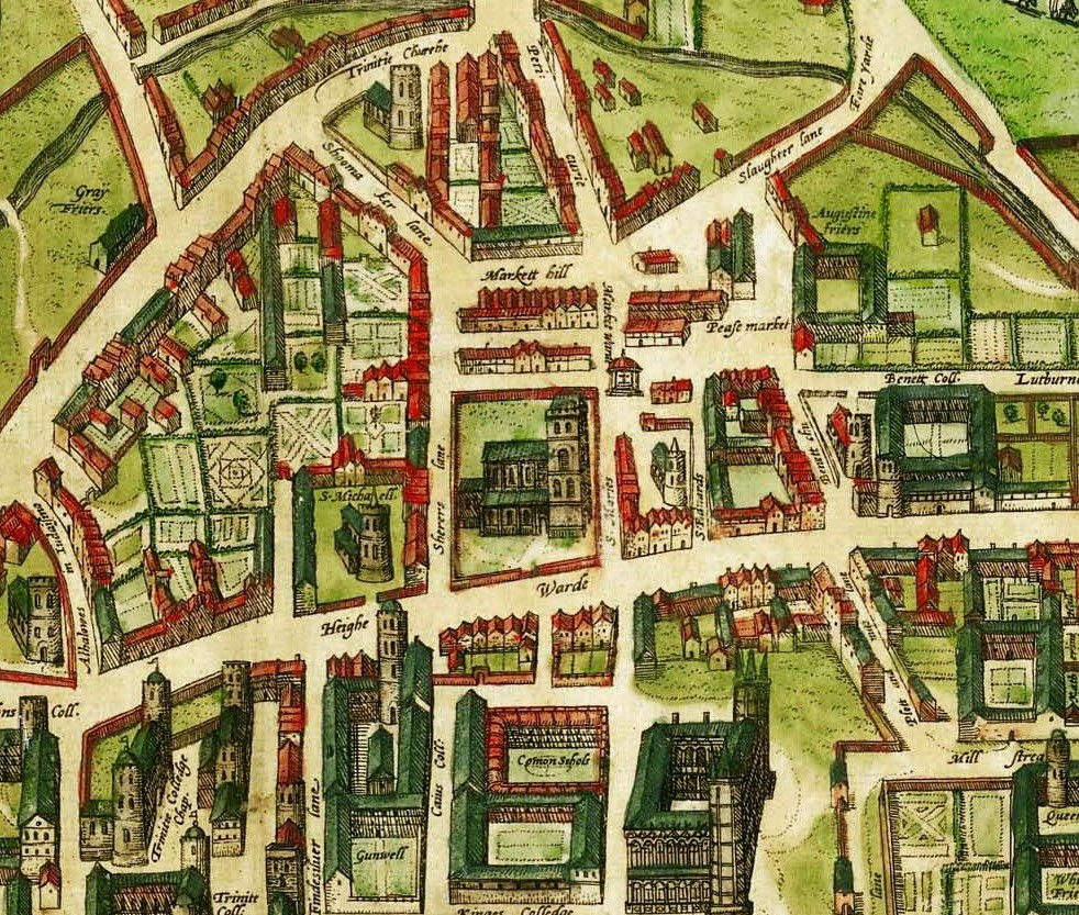 Cropped map of Cambridge